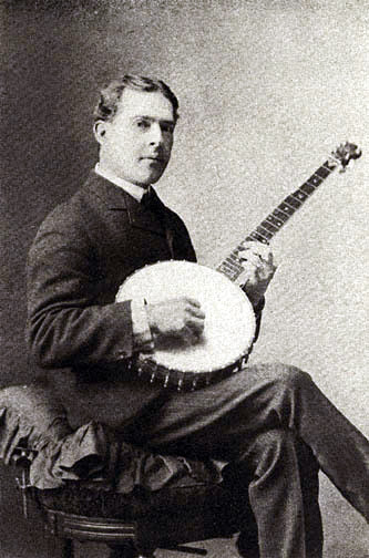 Vess Ossman with banjo